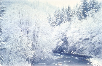 Wild and Scenic Salmon River in Clackamas County, Oregon, USA.